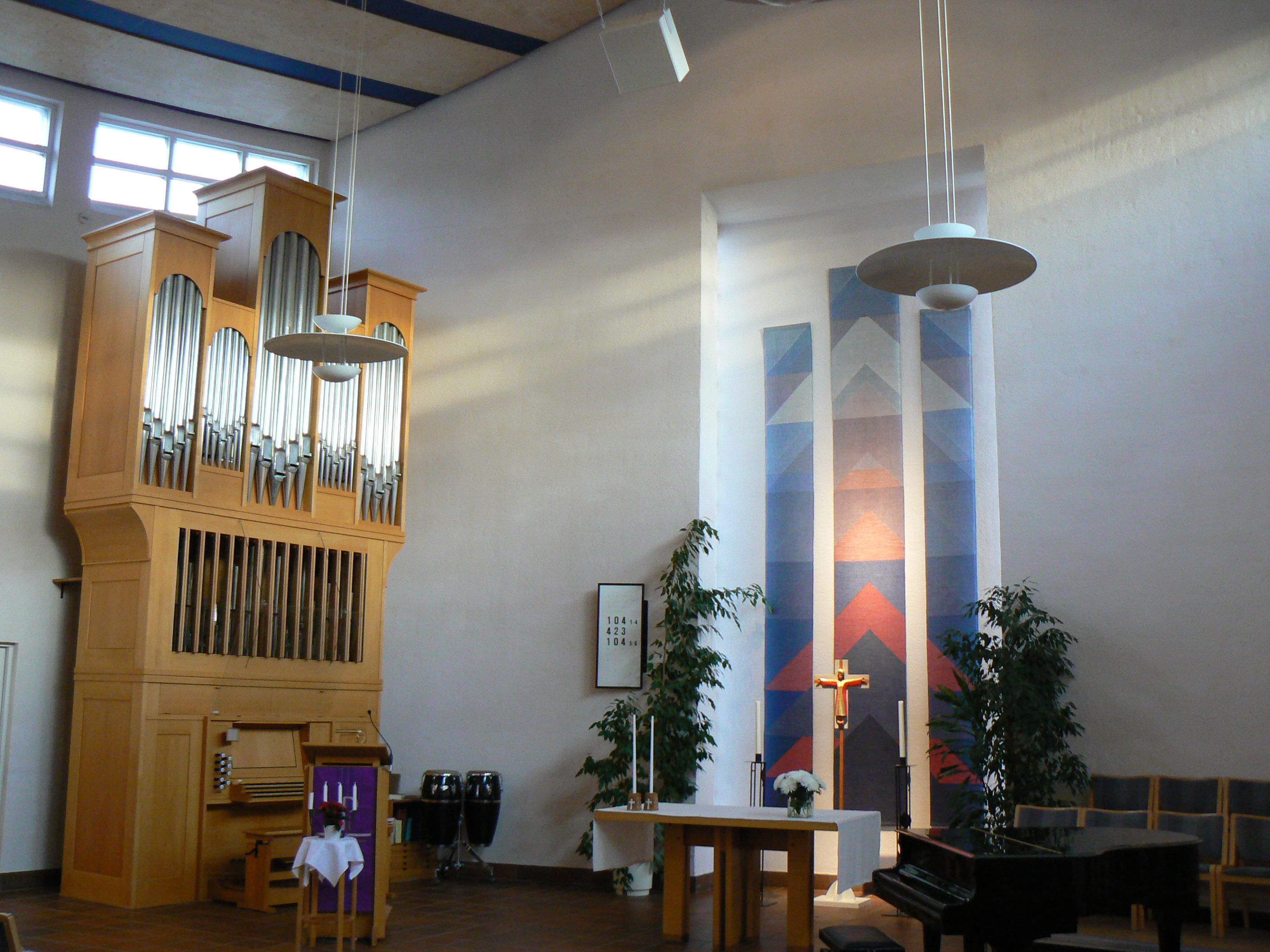 Inside Lambohov's church in Linköping, Sweden. Photo by Skvattram 2006-12-08.